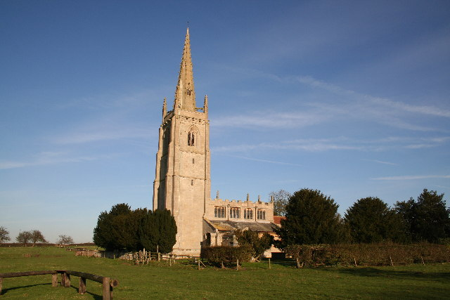 St Andrew's parish church, Asgarby, near Sleaford, Lincolnshire, seen form the southwest